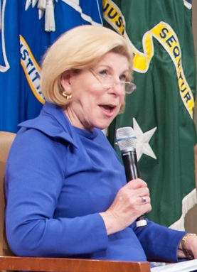 This image depicts Nina Totenberg at a panel discussion held by the Department of Justice on the subject of the court decision of Gideon v. Wainwright on March 15, 2013.